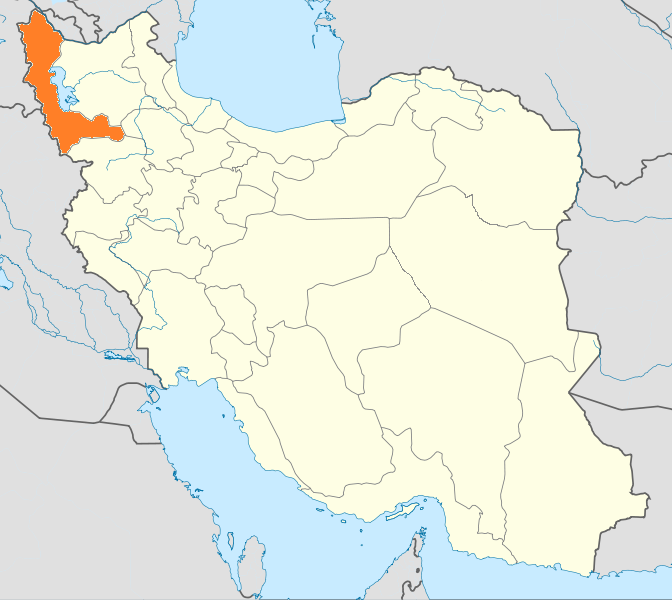 Locator map of Iran